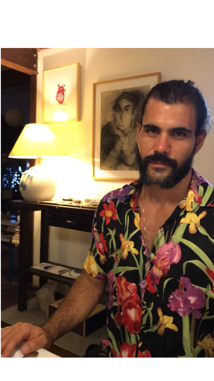 Juliano Cazarré at home in Rio de Janeiro, Brazil.